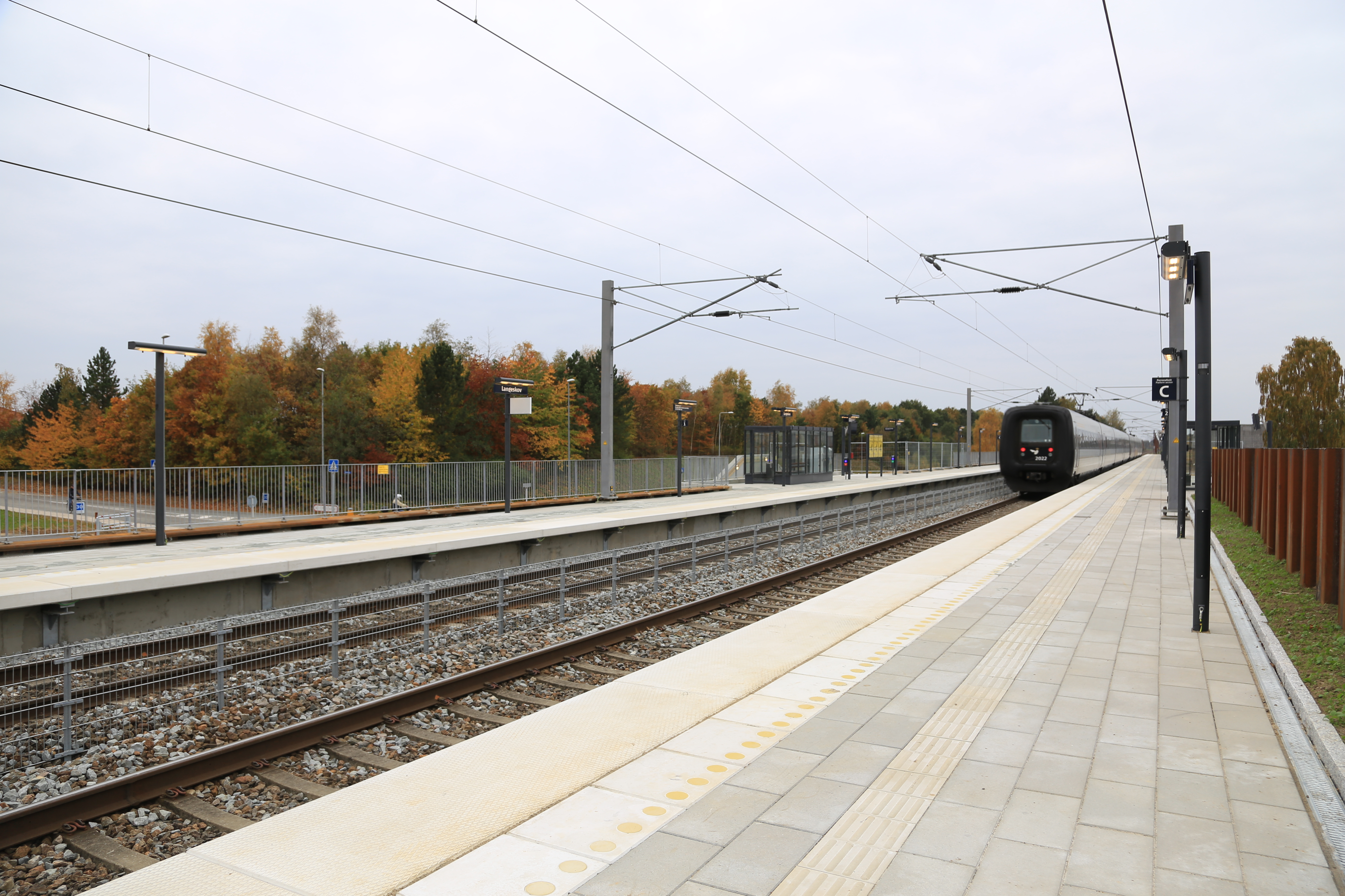 Langeskov Station, track 1 towards west with a departing IR4 trainset bound for Odense. The station reopend in October 2015.